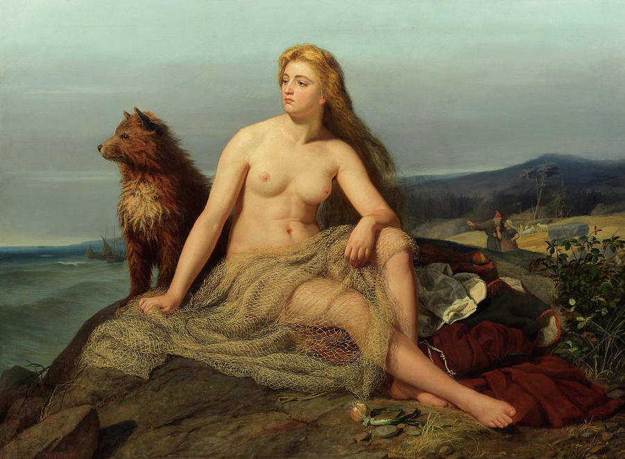 Kråka, daughter of Sigurd (royal name: Aslaug).